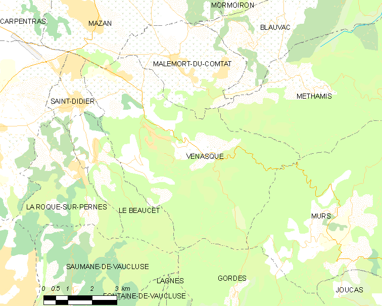 Map of French municipality Venasque